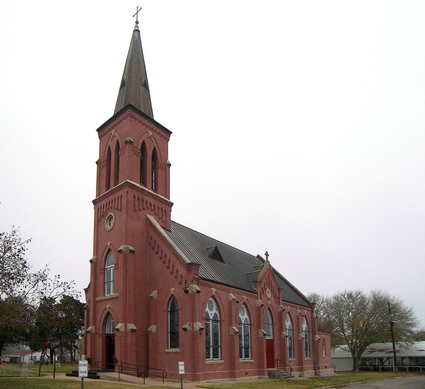 The Nativity of Mary, Blessed Virgin Catholic Church located in High Hill, Texas, United States. The Gothic Revival style church, built in 1906, was designed by prominent Texas architect Leo M.J. Dielmann. The building was listed on the National Register of Historic Places on June 21, 1983.